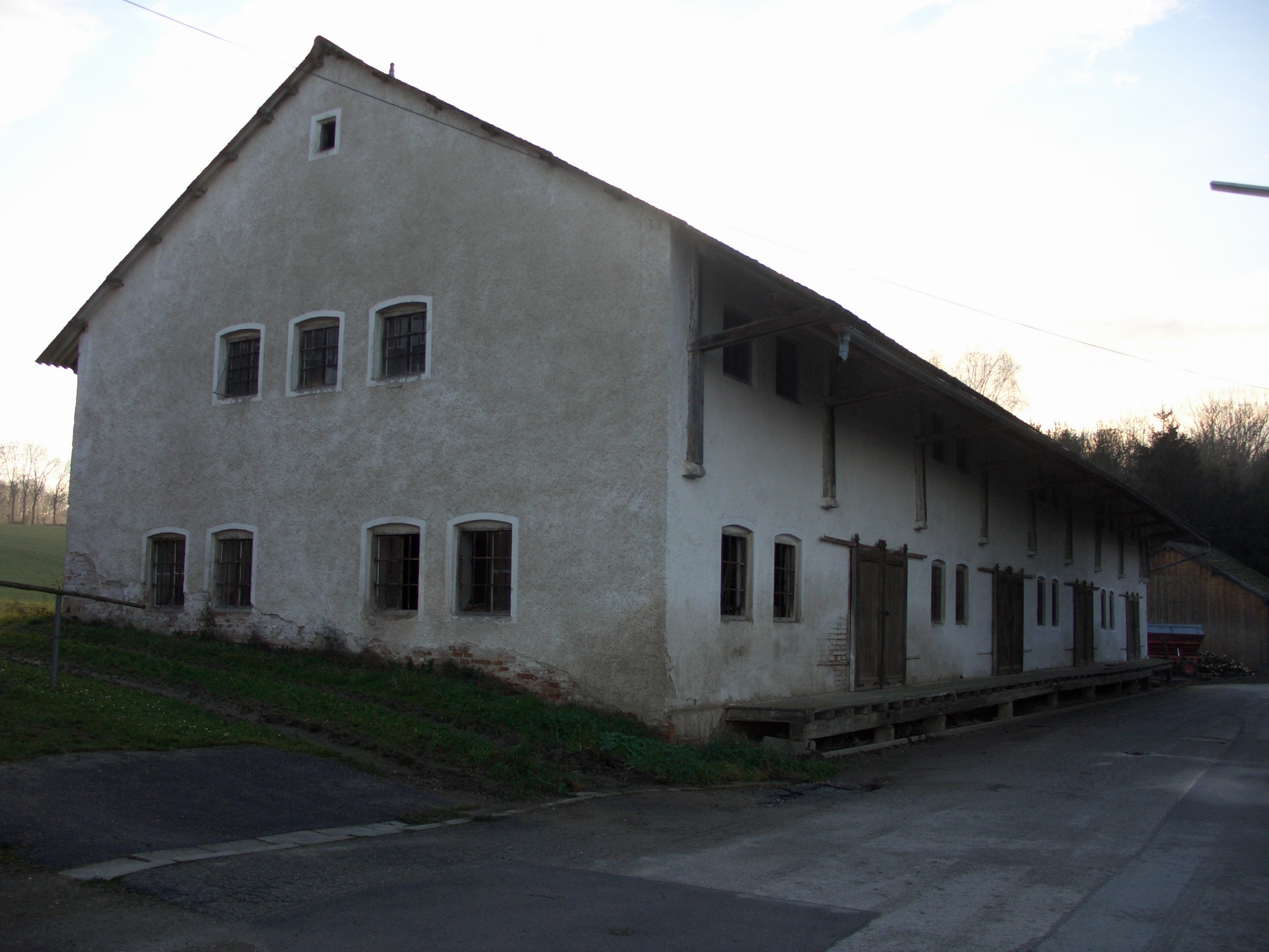 Warehouse on the old siding in Münchshöfen, Lower Bavaria, Germany, on the Wallersdorf–Münchshofen railway